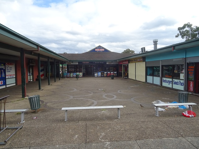 Small shopping centre in Shalvey, NSW